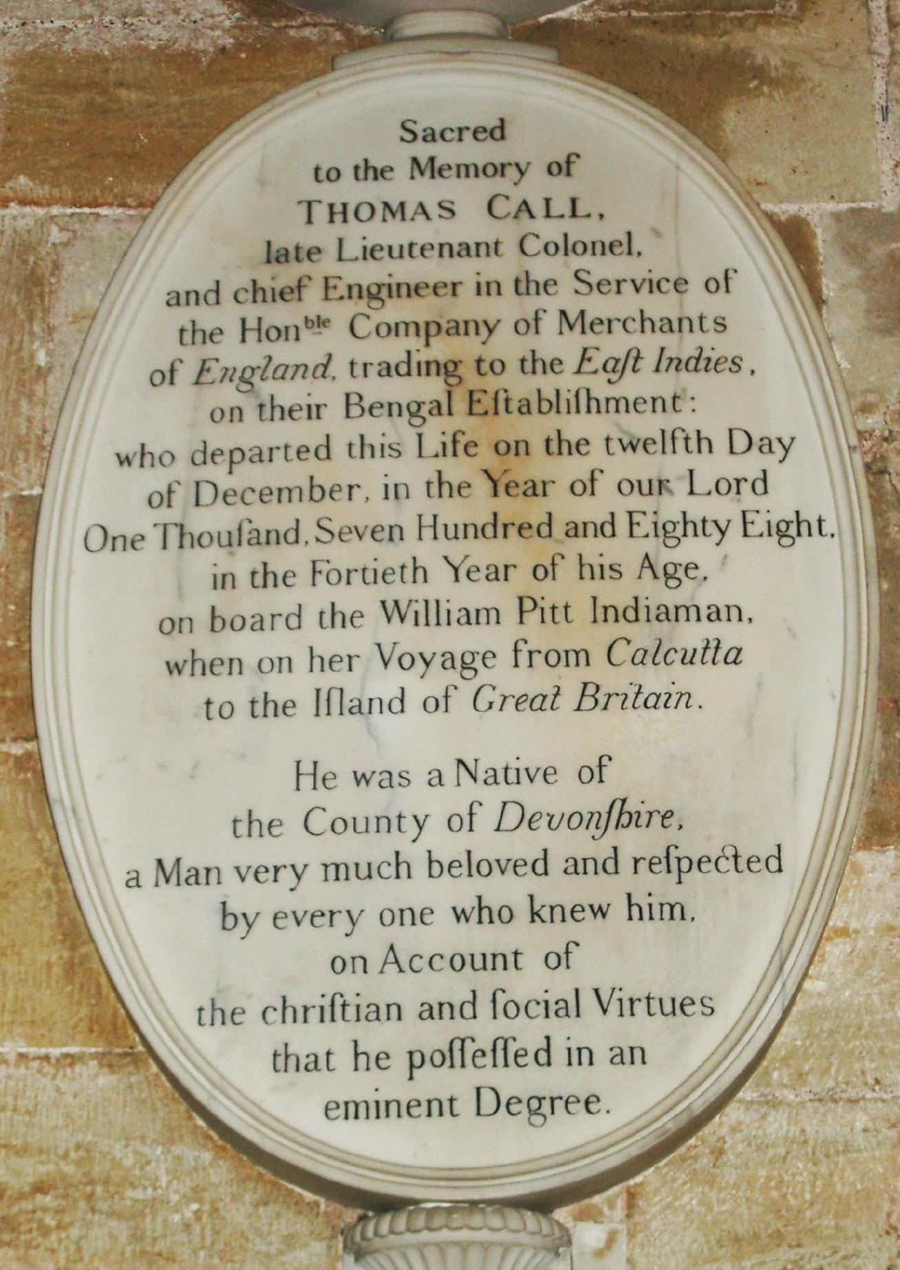 Memory plaque to Thomas Call († 12th December 1788) in Exeter.